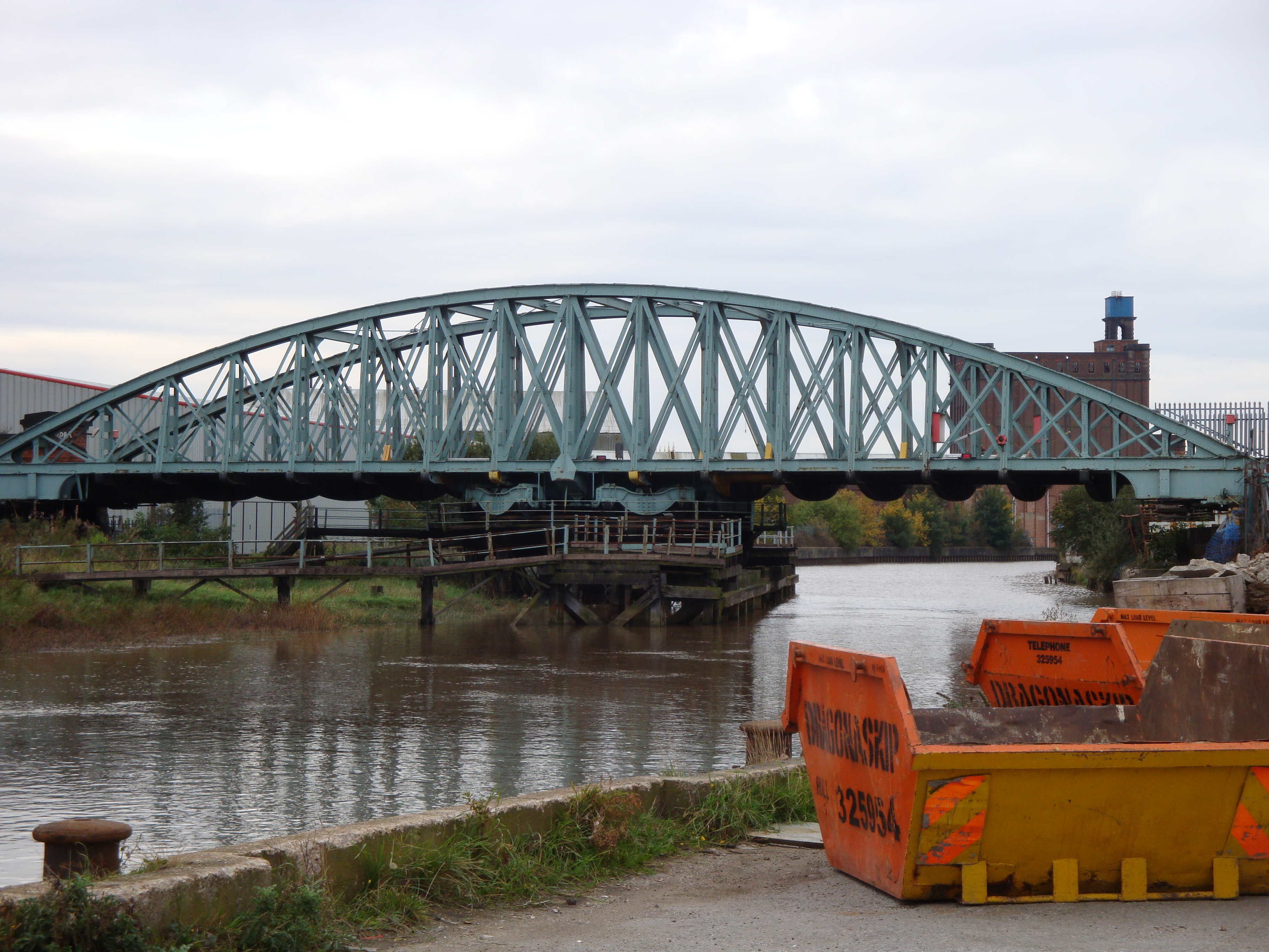 The River Hull bridge of the former Hull and Barnsley Railway, in Hull, Humberside, England. Opened with the line in 1885, this bridge is still in use as part of the Hull Docks Branch, providing rail access to the eastern docks.